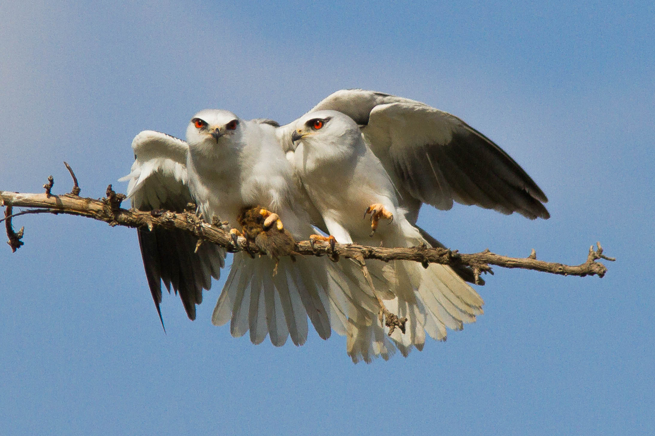 Elanus caeruleus Black-winged kite courting. Location unknown possibly Israel?